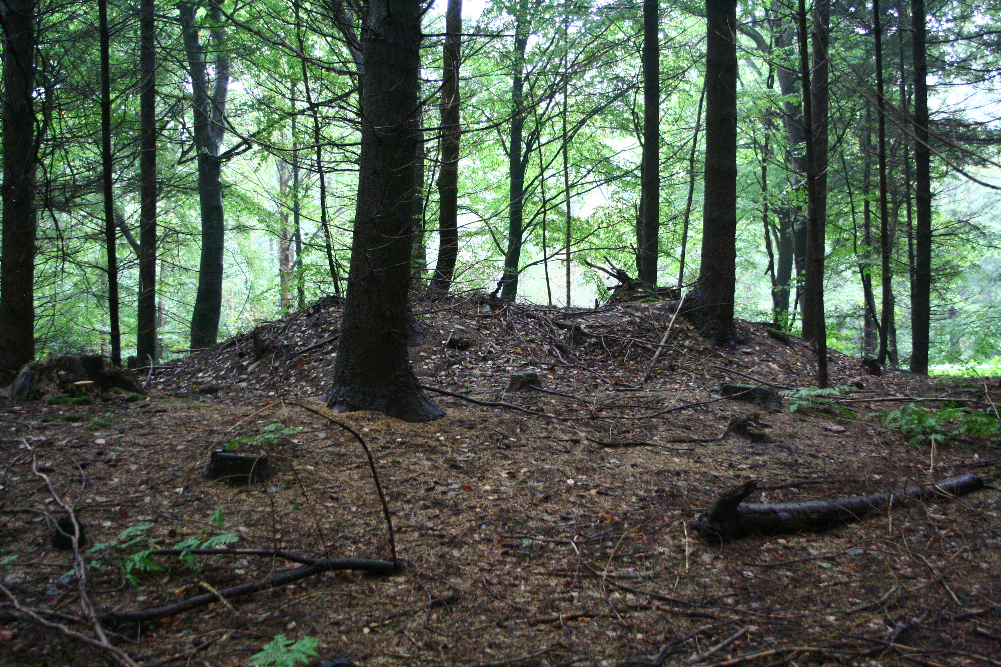 Megalithic tomb Drangstedt 1